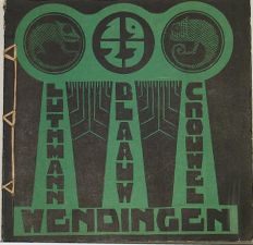 Cover of the magazine Wendingen, 1923, 7: 11-12